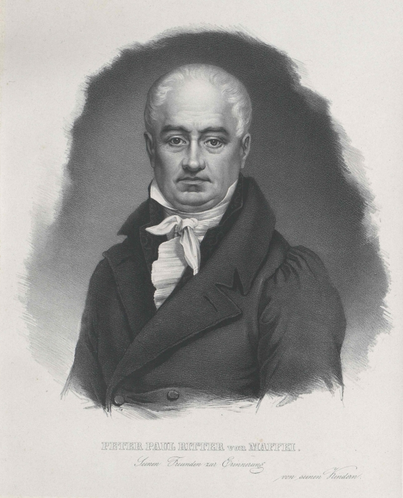 Peter Paul Terentinus Ritter und Edler von Maffei